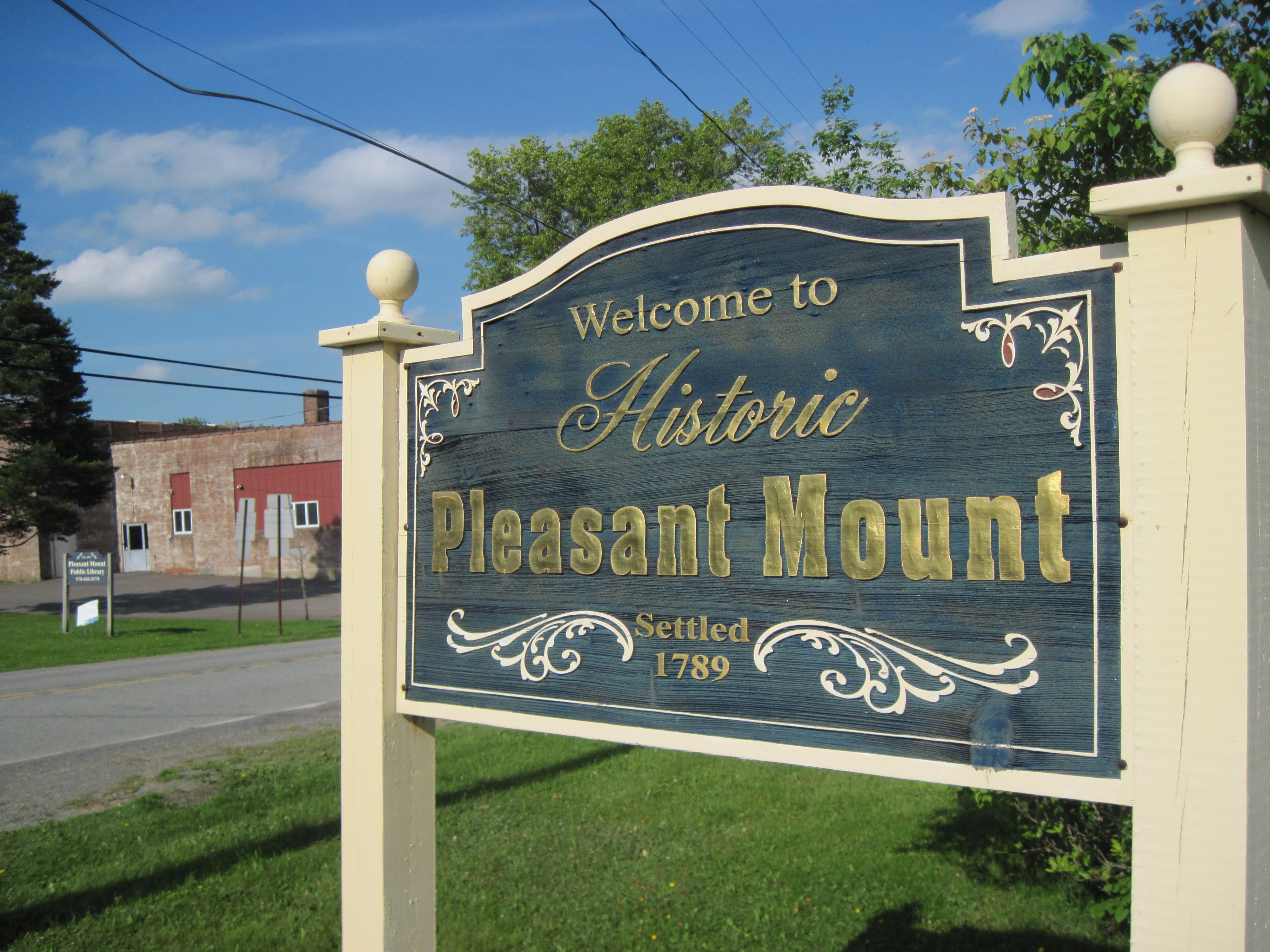 The welcome sign for the Village of Pleasant Mount in Mount Pleasant Township, Wayne County, Pennsylvania. A sign for the Pleasant Mount Public Library can also be seen at far left.